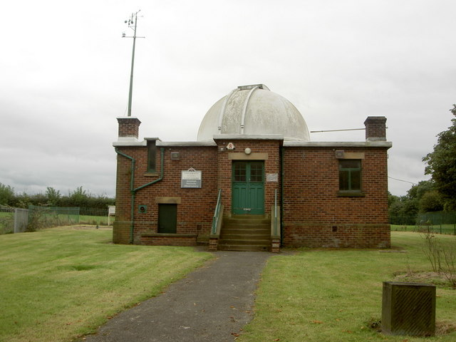 Jeremiah Horrocks Observatory, Moor Park. Jeremiah Horrocks (1618-1641) was an English astronomer who made the first observation of a transit of Venus. (He was from Toxteth in Liverpool, but lived near Preston after dropping out of Cambridge; he appears to have no connection to the eponymous dynasty of Preston cotton magnates.) The Observatory in Moor Park was built by Preston Council and opened on June 29th 1927, the day of a total solar eclipse. The new observatory lay in the path of totality and some 30,000 people thronged on Moor Park to witness the event. The main instrument in the observatory is an 8 inch Thomas Cooke Refractor, originally acquired for the Deepdale Observatory in 1912. The Observatory now belongs to the University of Central Lancashire, and is one of the 500 synoptic weather stations around the UK that forms the climatological network of the Met Office. (Sources: Wikipedia, Preston and District Astronomical Society, University of Central Lancashire.) This picture forms part of a circular walk around Preston - continues at 557632.